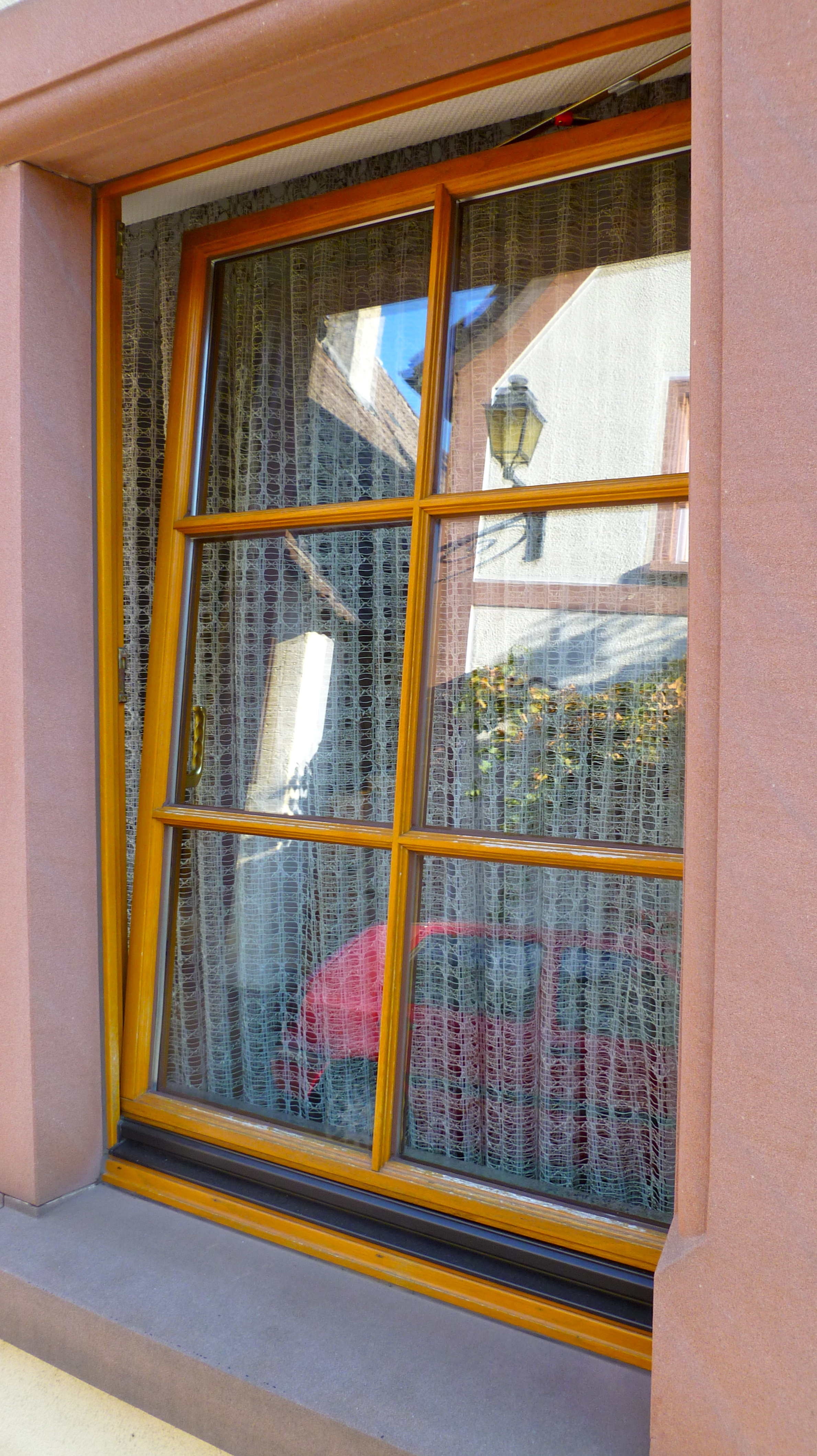 Fake glazing bar